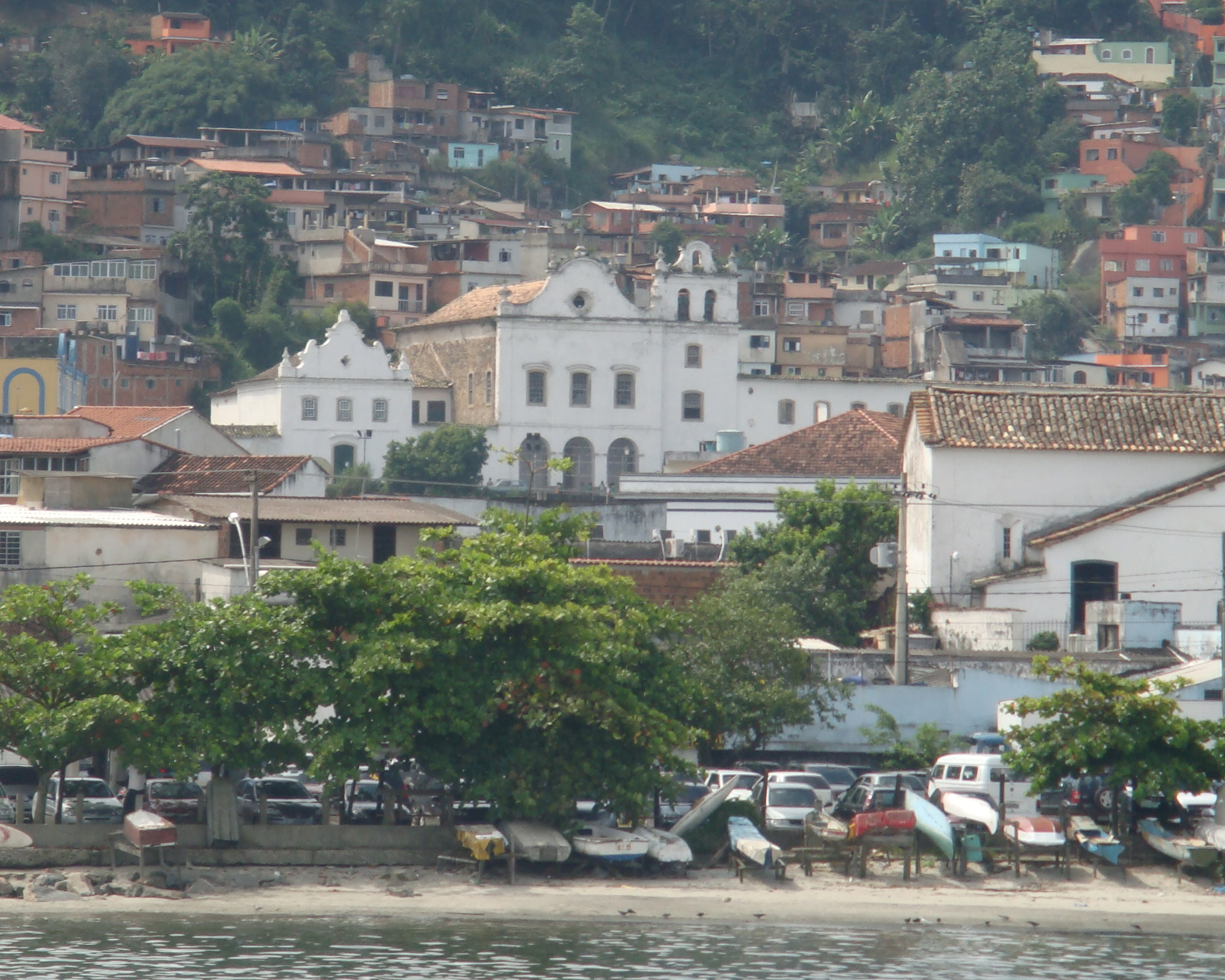 Franciscan Convent (São Bernardino de Sena) in Angra dos Reis, Brazil